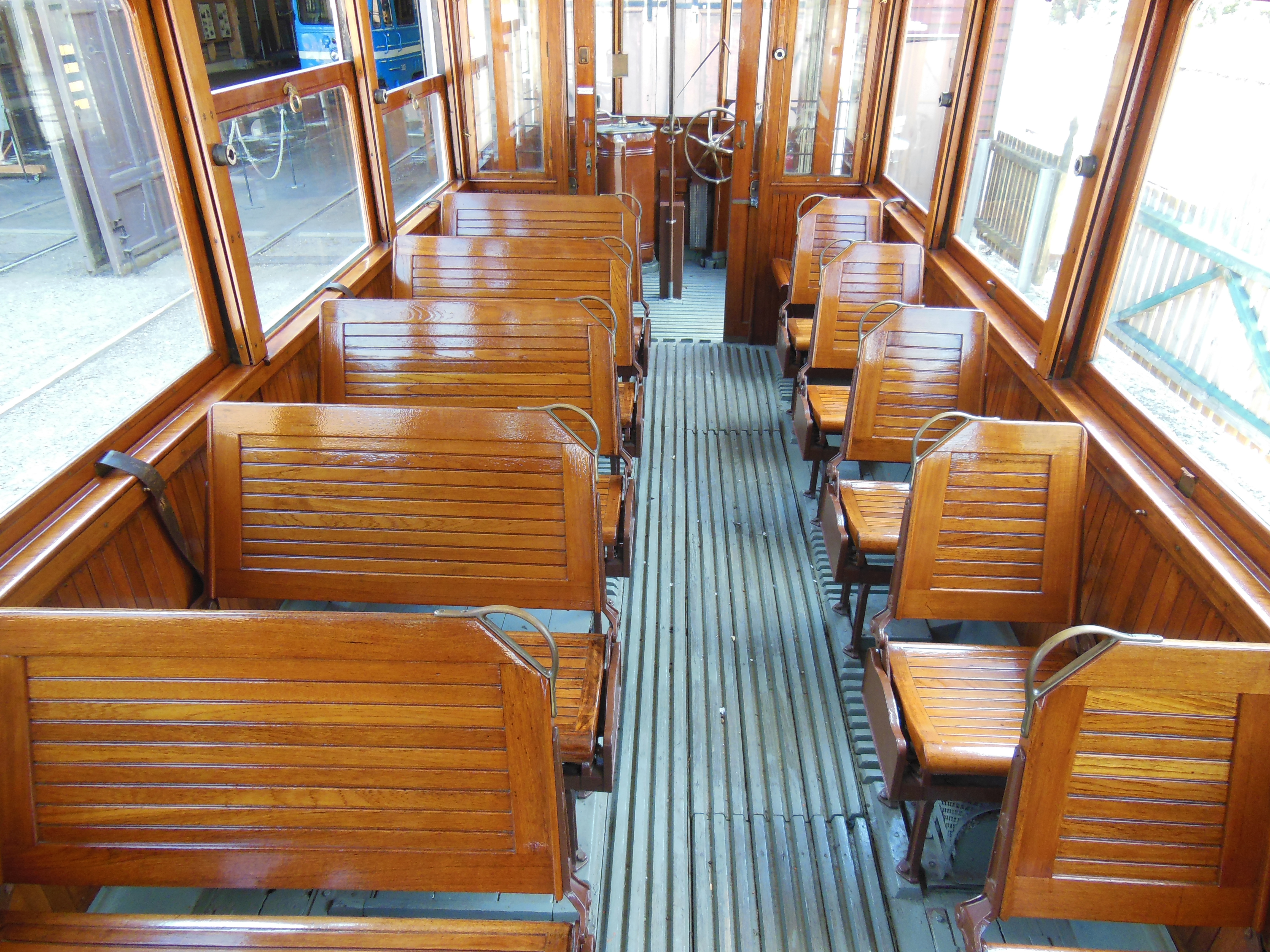 The interior in Gothenburg tram M20 number 186.